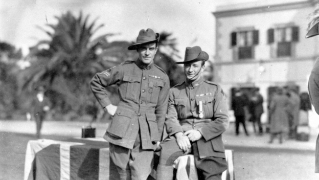 An informal photograph of Arthur Sullivan VC and another soldier after an investiture ceremony at Government House, Adelaide on 13 July 1920